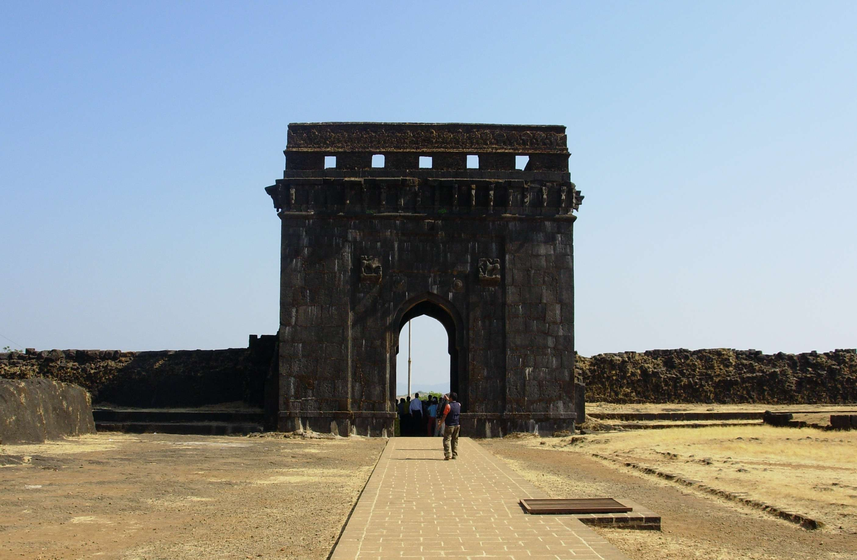 Maha Darwaja - Main Door of Raigad Fort situated in the near Mahad, Raigad district of Maharashtra, India